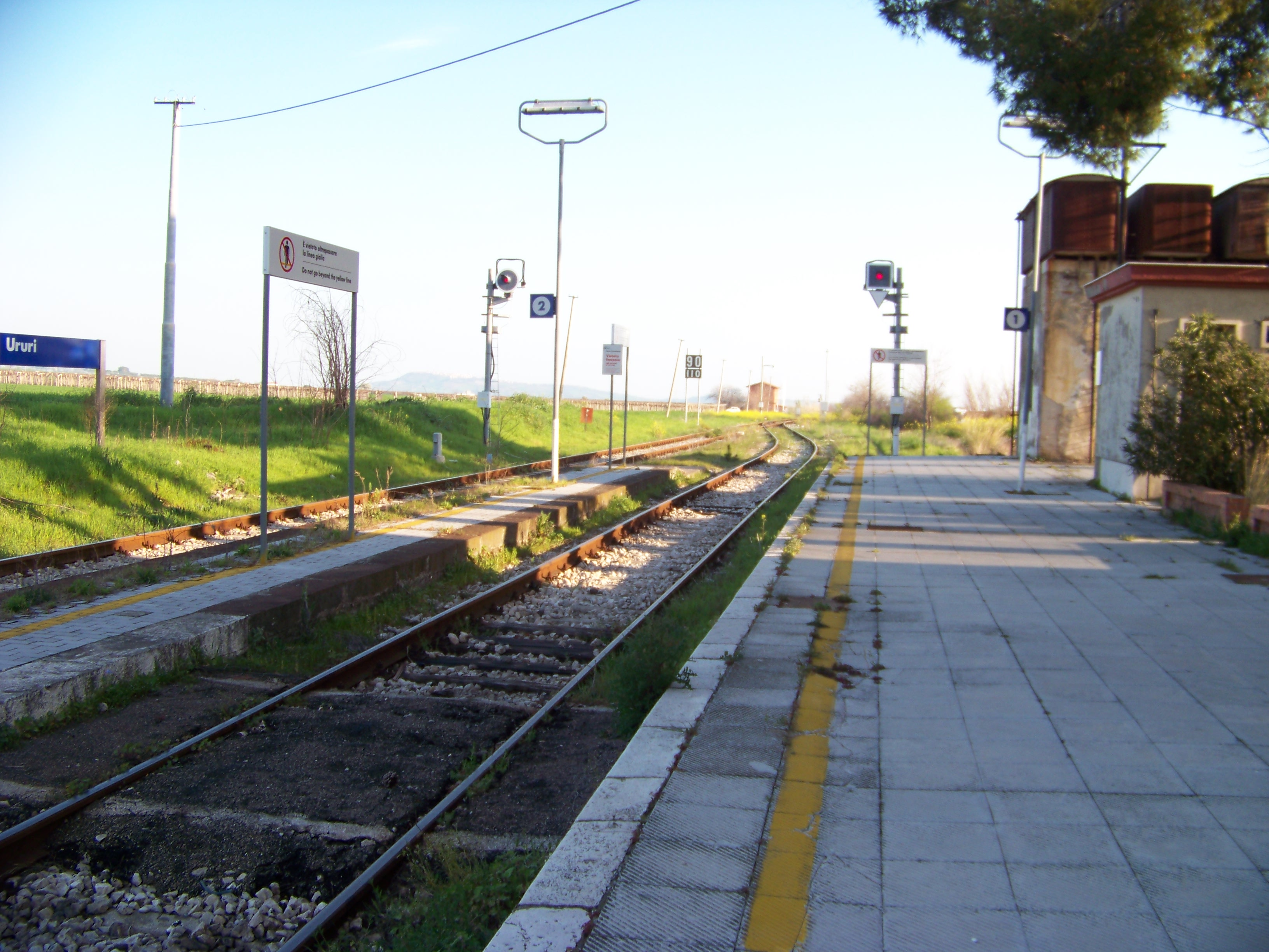 Ururi-Rotello train station